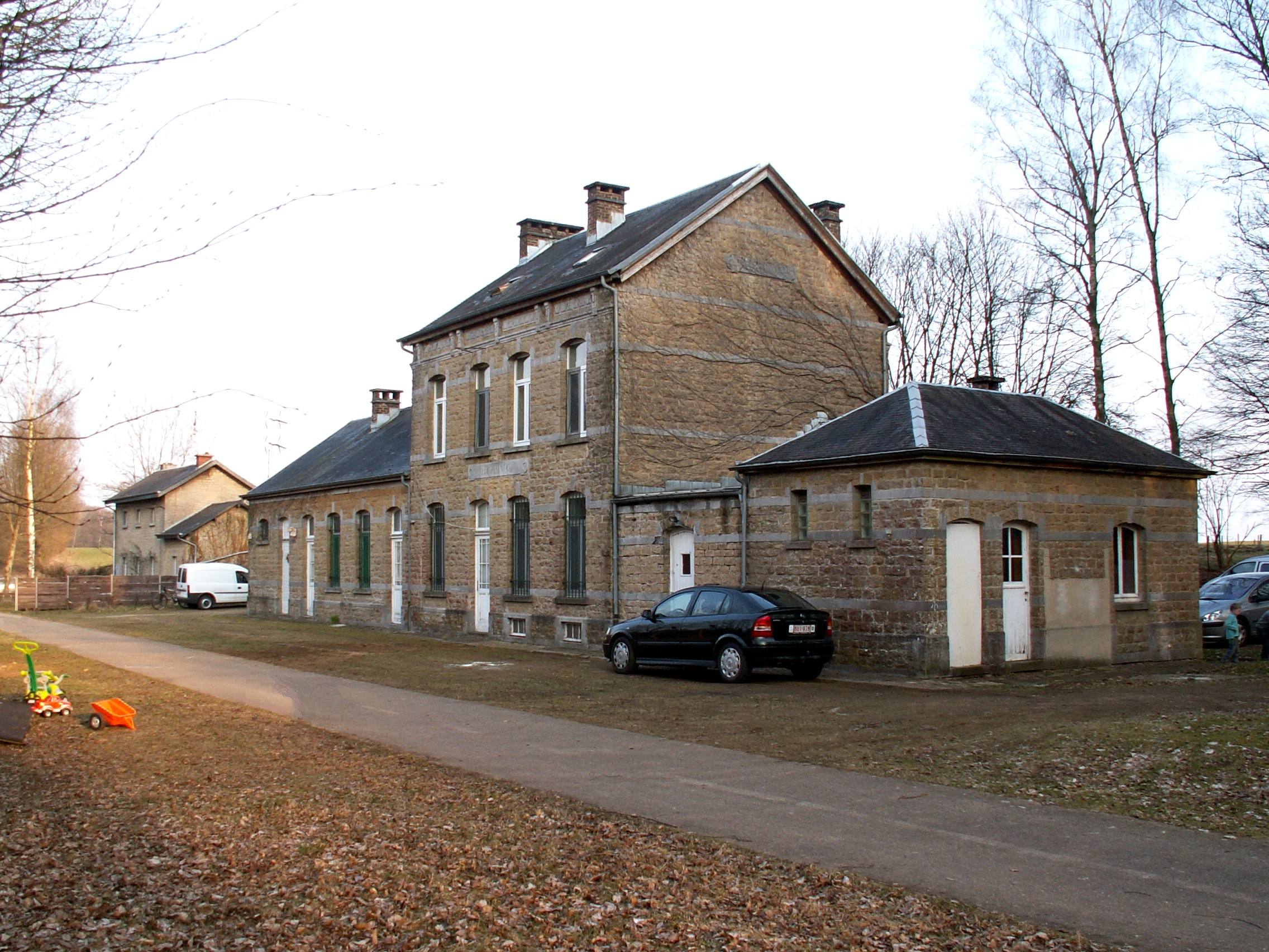 Station of Buzenol, on belgian (SNCB) former railway line 155. While quite far from the village, the station is kept in its original state, including the nearby crossing keepers's house. Tracsk have been removed, and turned into a footpath